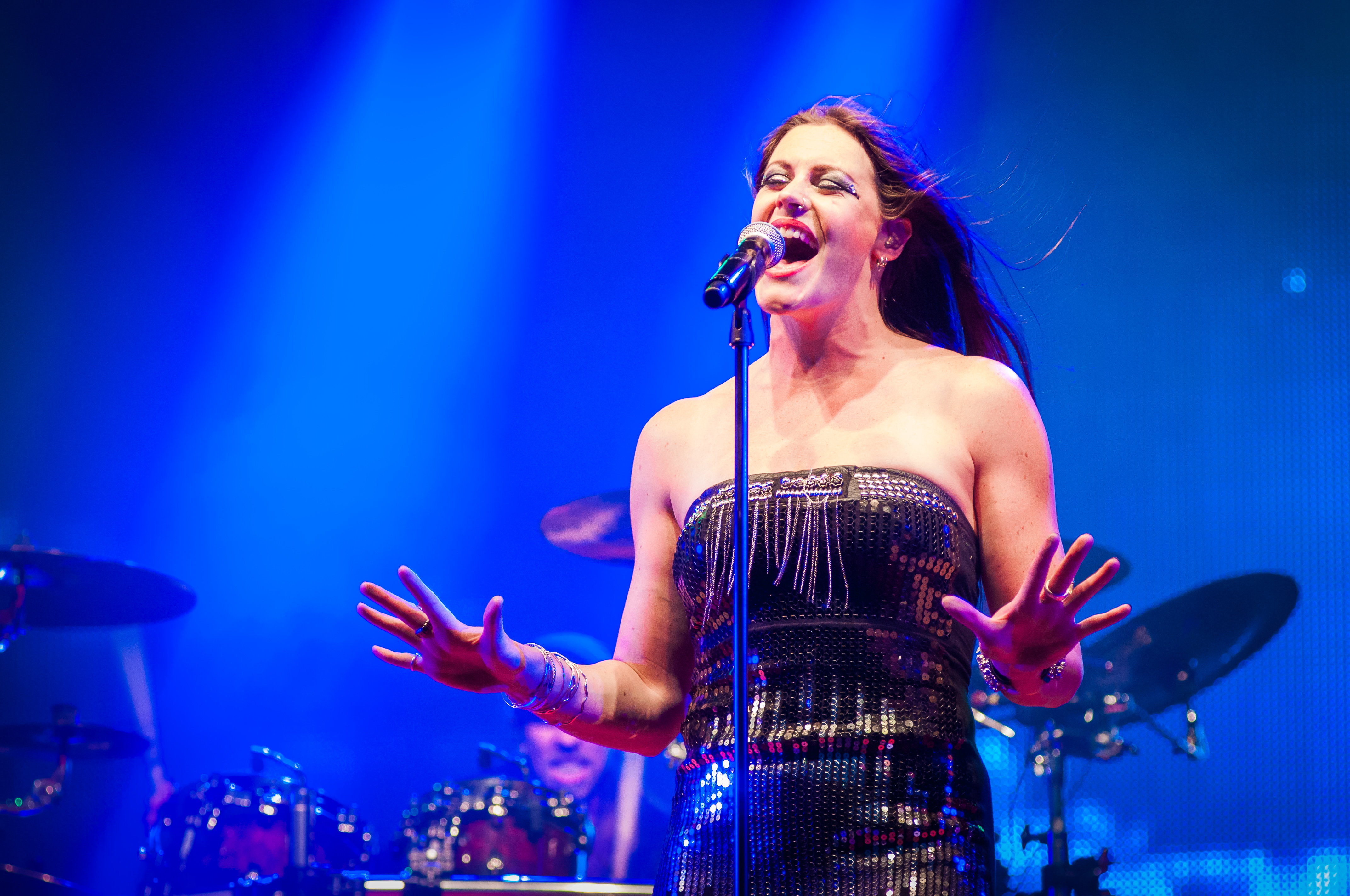 Dutch vocalist Floor Jansen of Nightwish performing at the 2013 Ilosaarirock festival in Joensuu, Finland.